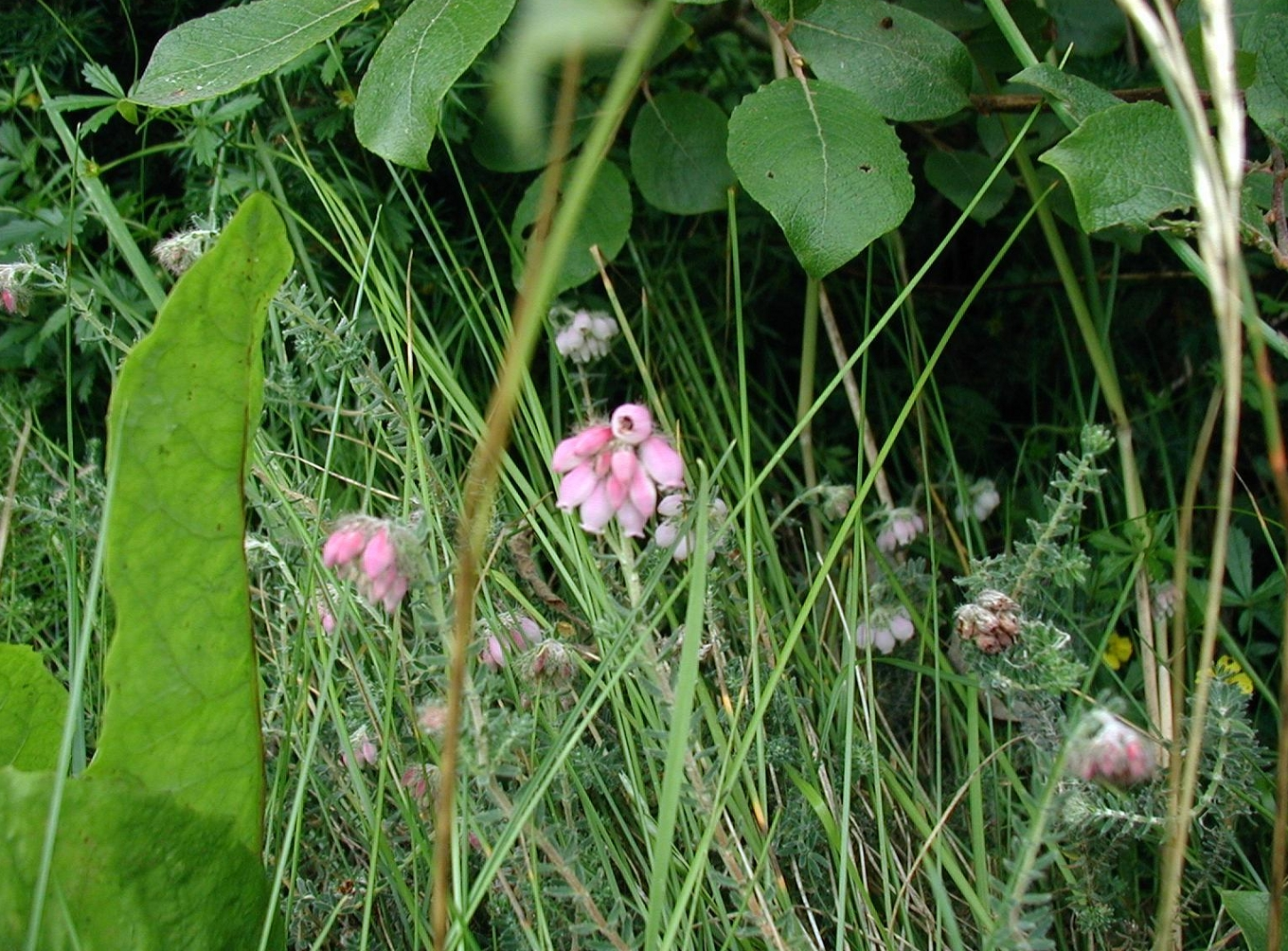 Erica tetralix: Flowering at a natural habitat